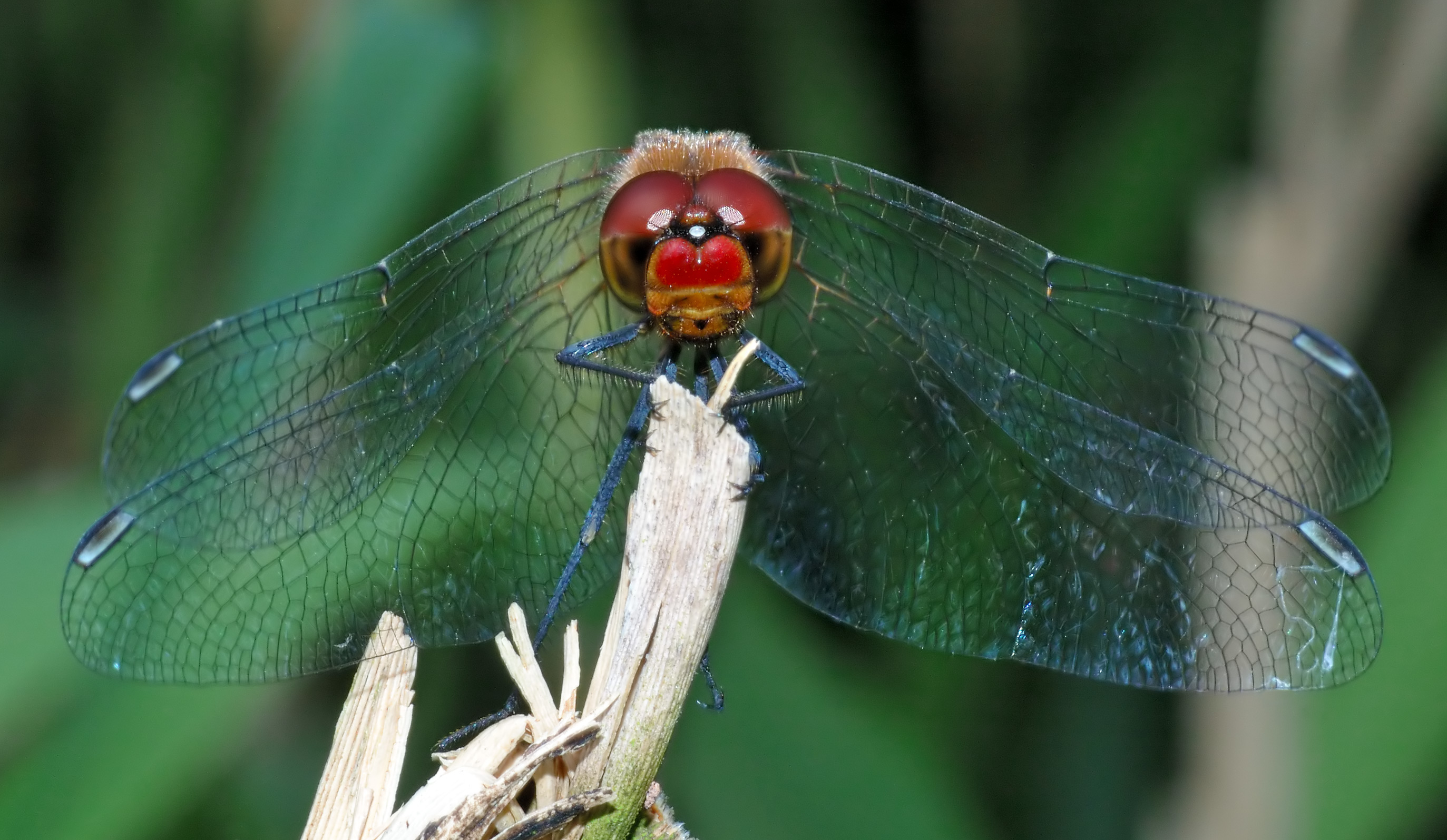 This image shows a male Ruddy Darter (Sympetrum sanguineum) from the front.